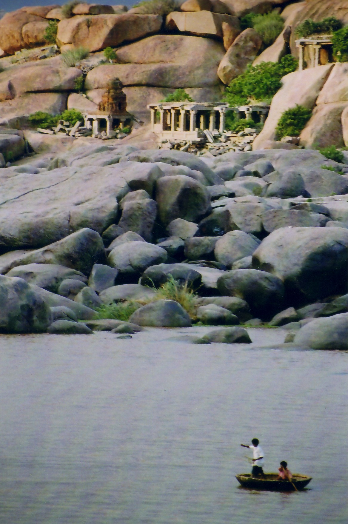 Photograph taken by self (Dineshkannambadi) in June 2004